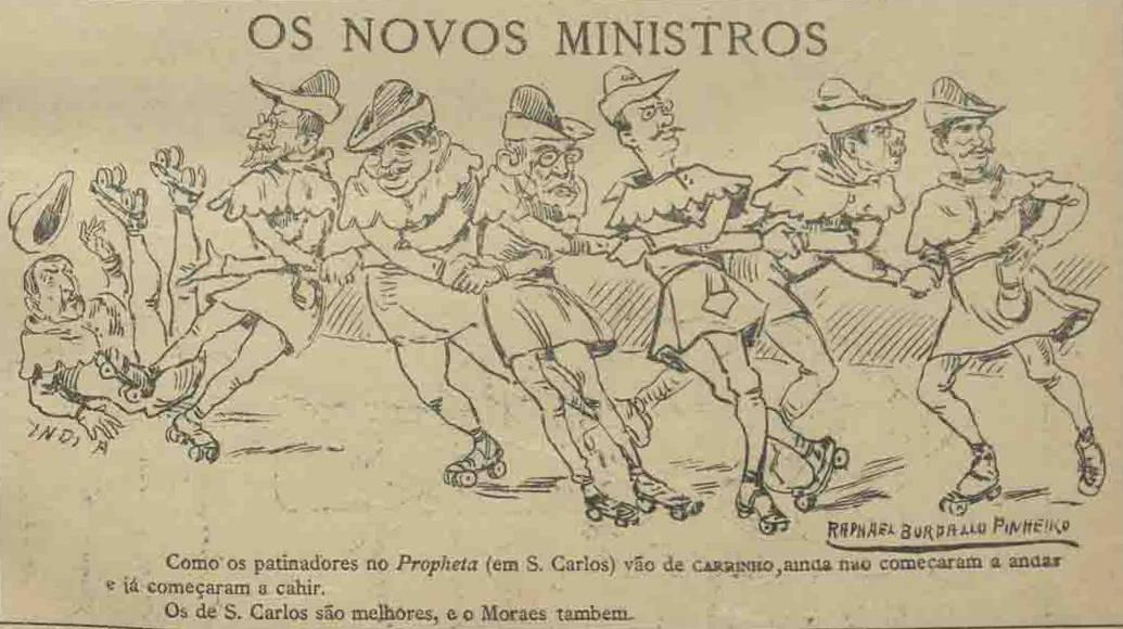 "The New Cabinet", cartoon by Rafael Bordalo Pinheiro. Transcription: "Like the ice-skaters in the «Le prophète» (on stage in the São Carlos opera house), they are also in their gear: they still haven't started walking and they already started to stumble. The ones in São Carlos are better, and so is Moraes."